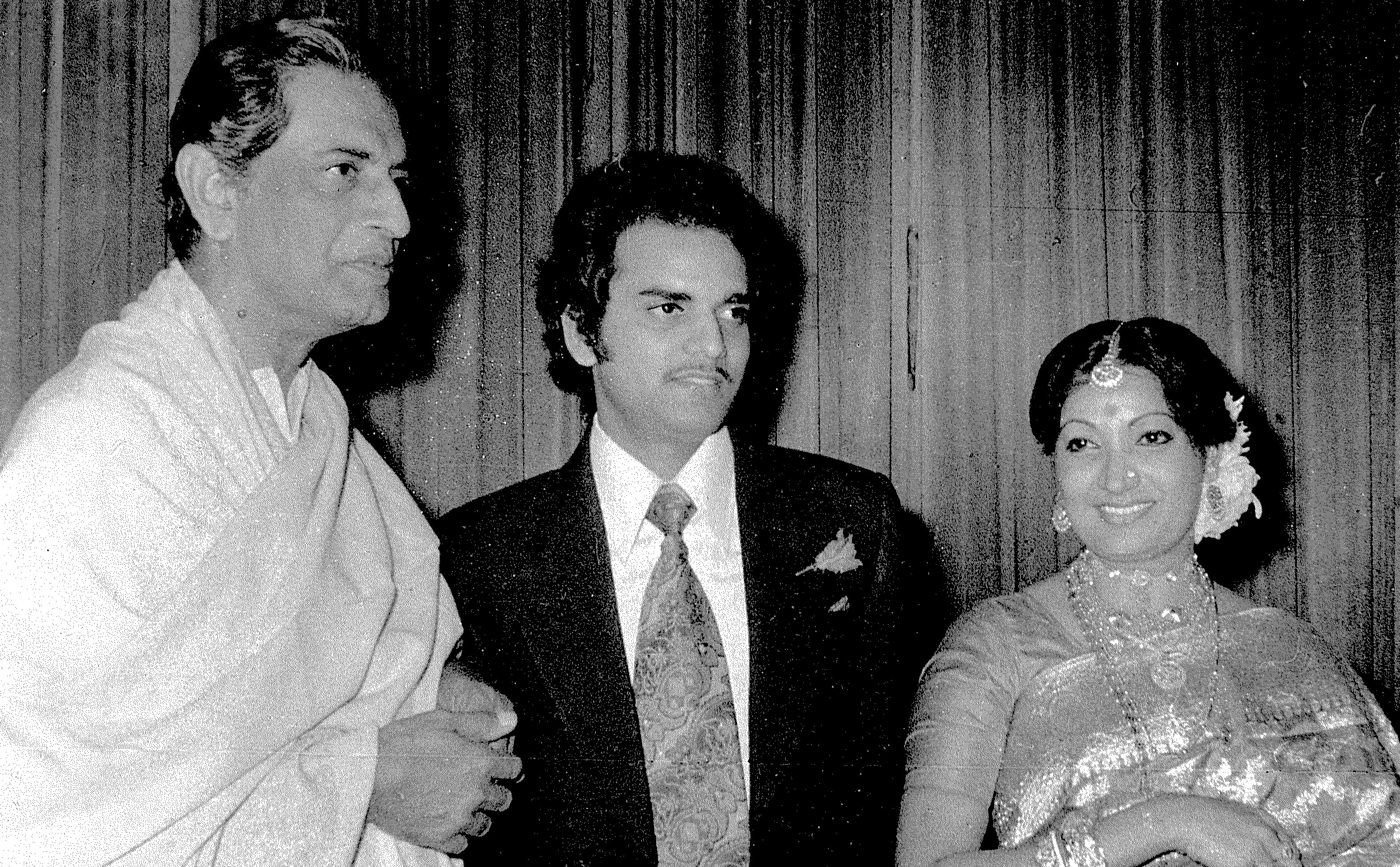 Famous Director Satyajit Ray at his wedding.